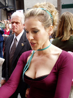 American actress, Sarah Jessica Parker, known for her role in Sex and the City. New York City, 19 June 2003.